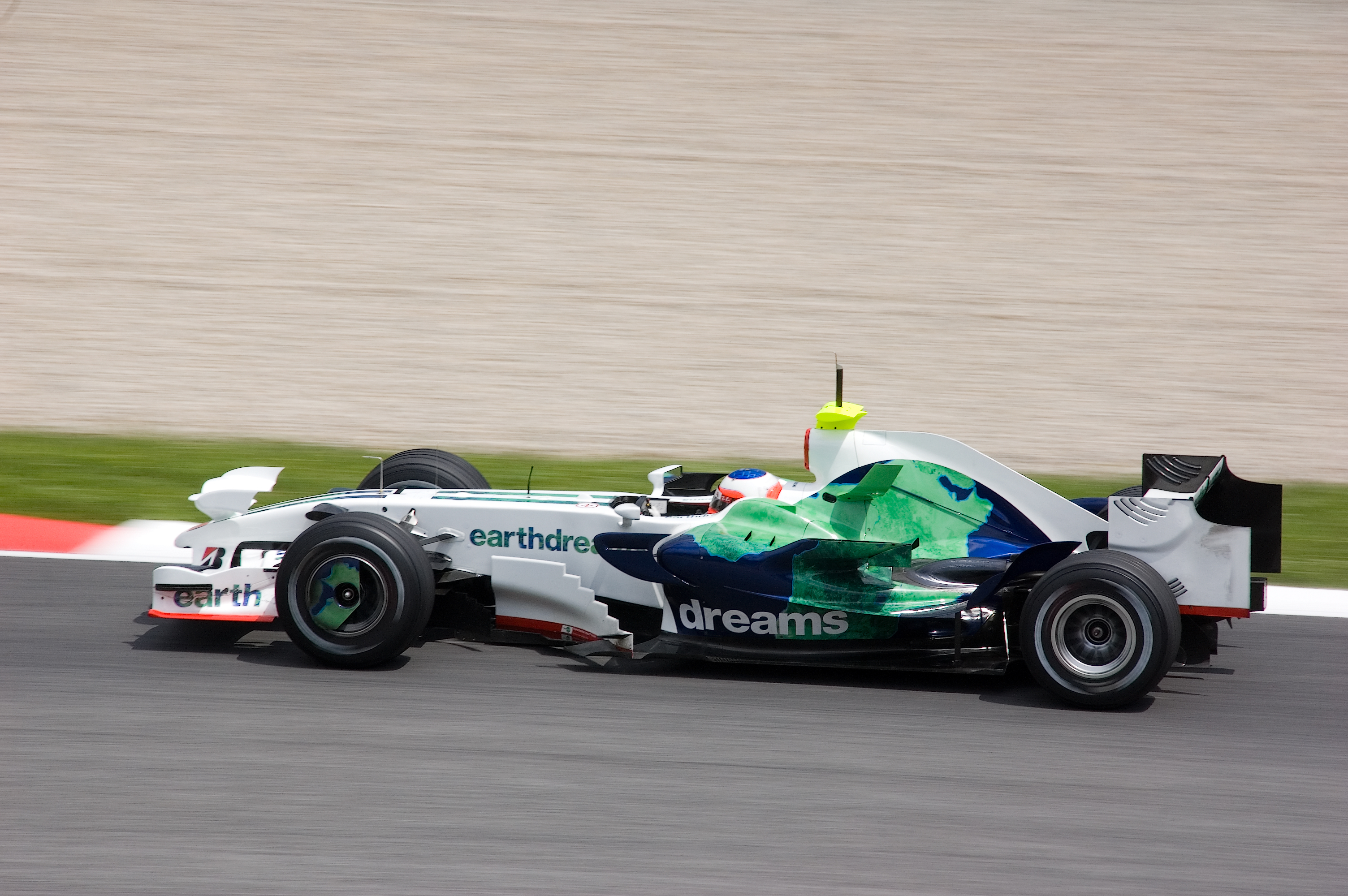 Rubens Barrichello testing for Honda F1 at the Circuit de Catalunya in June 2008.